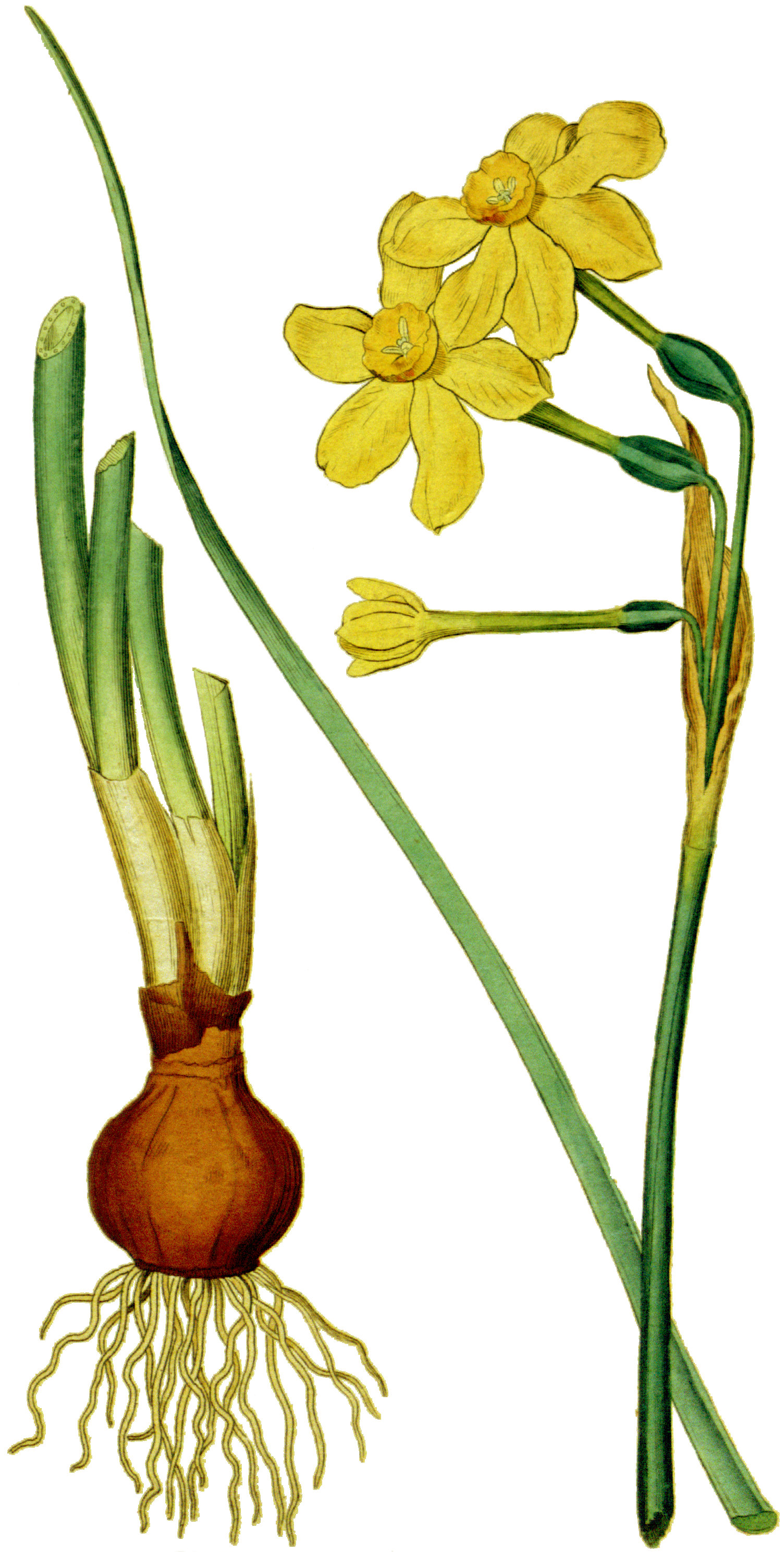 Plate 15, Narcissus jonquilla From Curtis's Botanical Magazine, Volume 1. Edited from the original, plant image has been masked so that plant could be color corrected independent of paper.